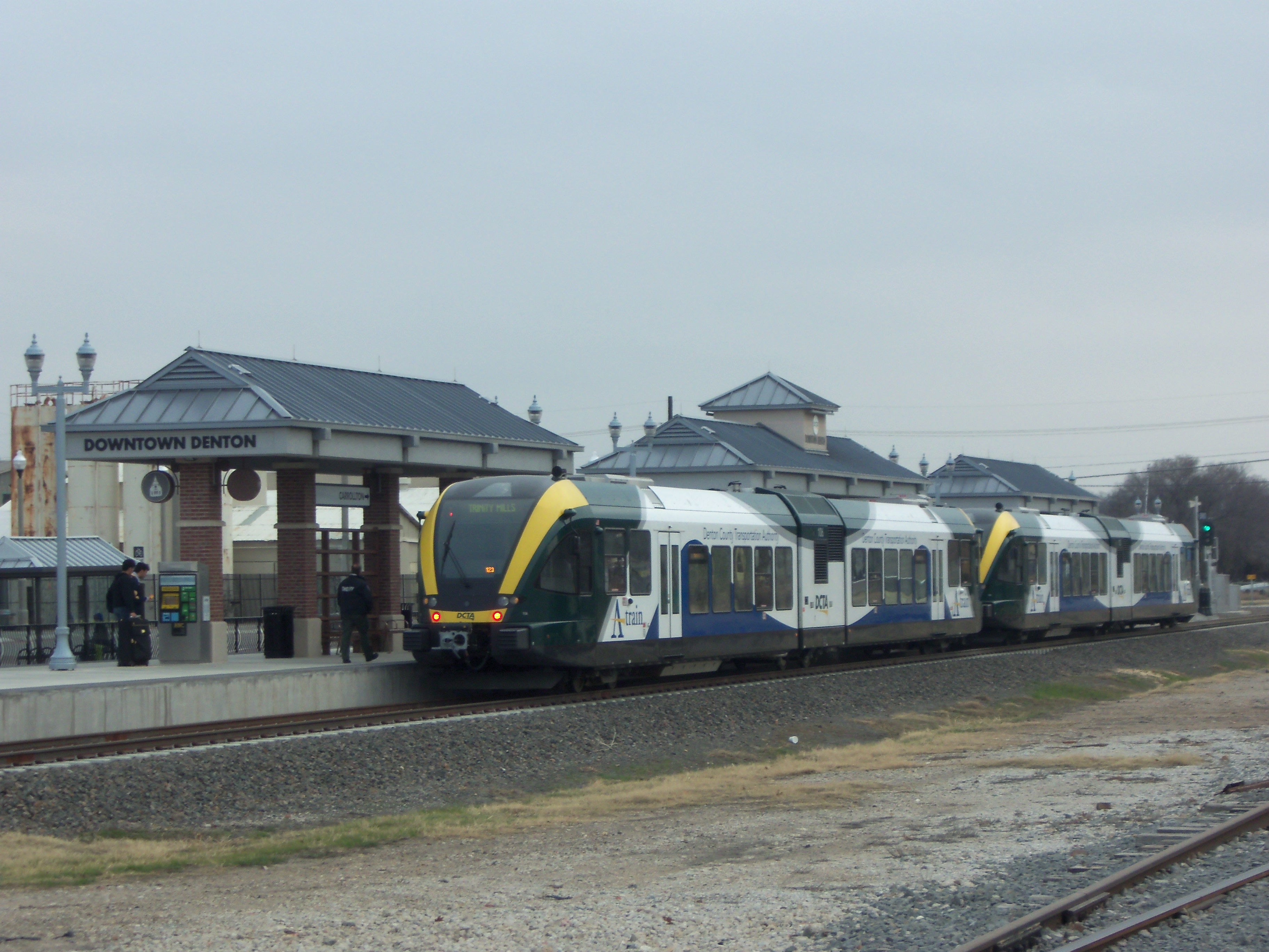 Denton A train at Downtown Denton, photo taken January 26, 2013